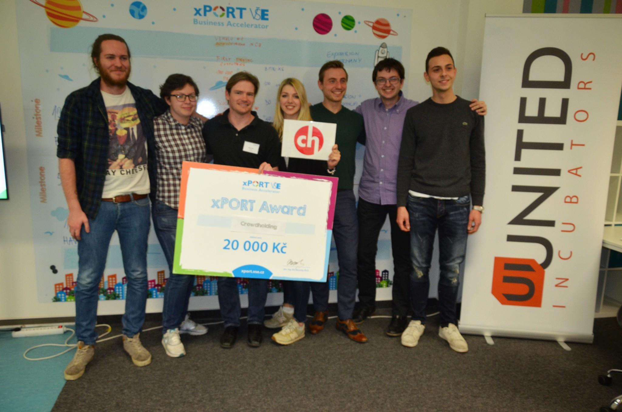 Celý xPORT blahopřeje vítězství Demo Day 2017 firmě Crowdholding